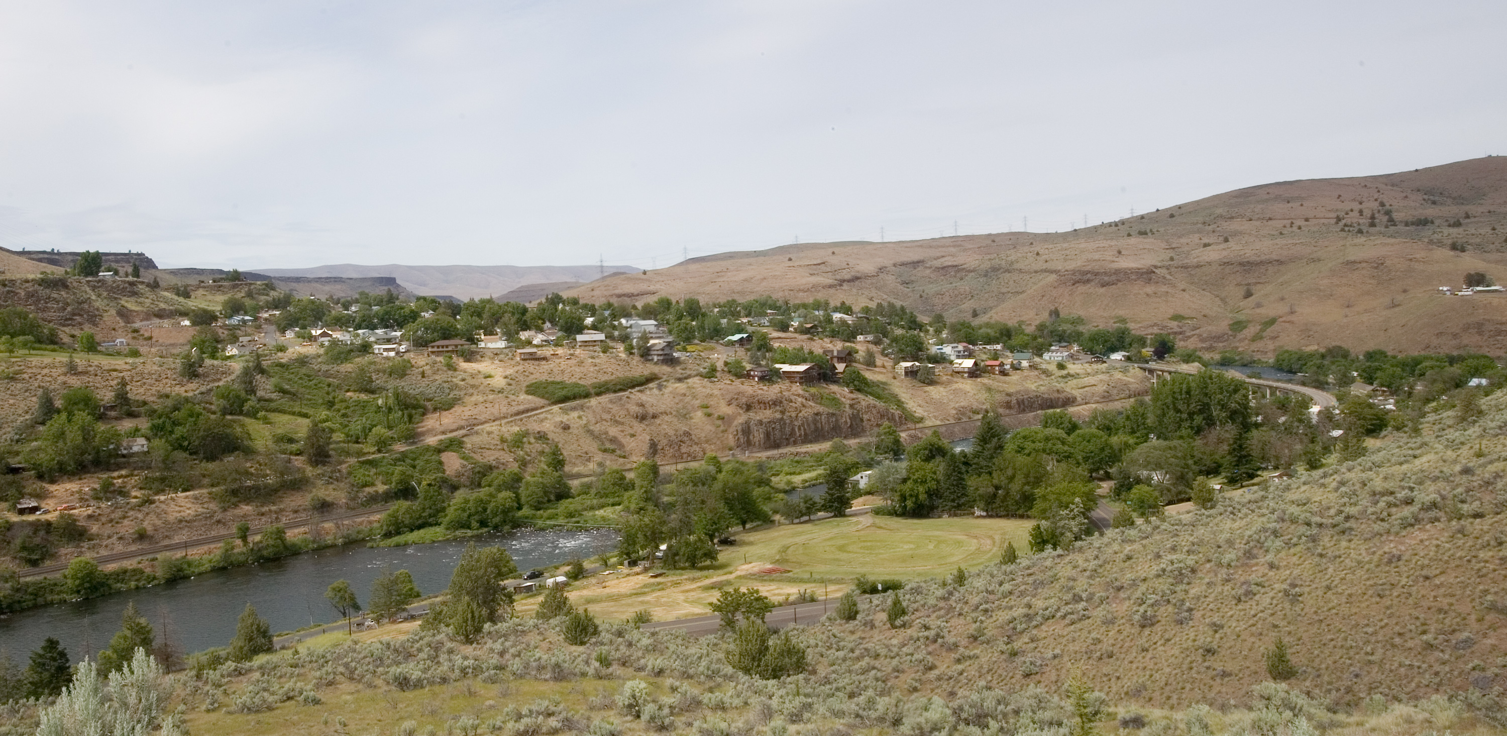 Maupin and the Columbia Plateau — looking north from U.S. Highway 197 in Oregon. The Deshutes River is in the foreground. In Wasco County, Oregon.